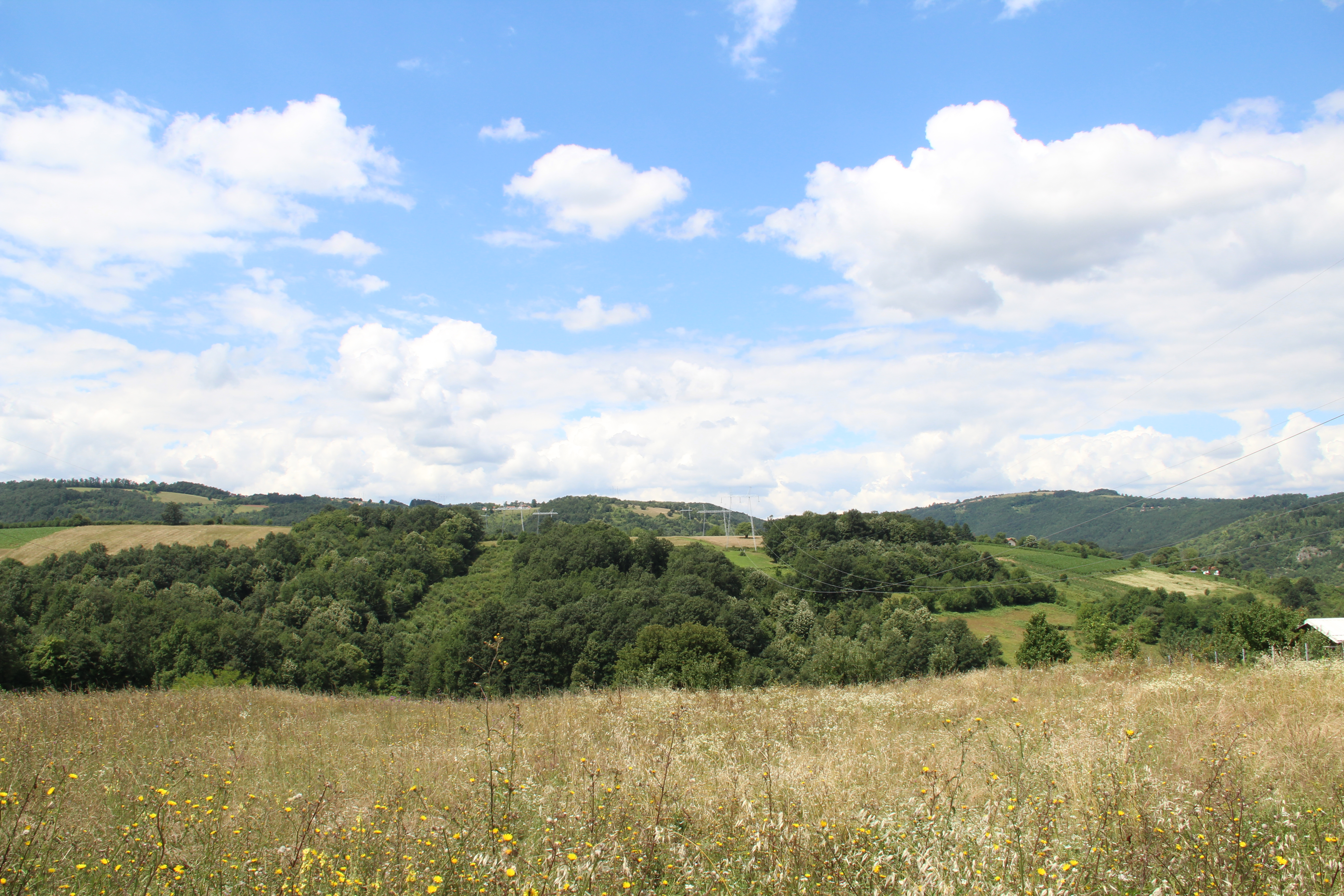 Belic village - Municipality of Valjevo - Western Serbia - Panorama 1